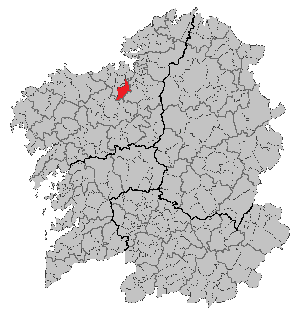 Location map of Abegondo, A Coruña, Galicia